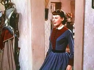 Cropped screenshot of June Allyson from the trailer for the film Little Women.